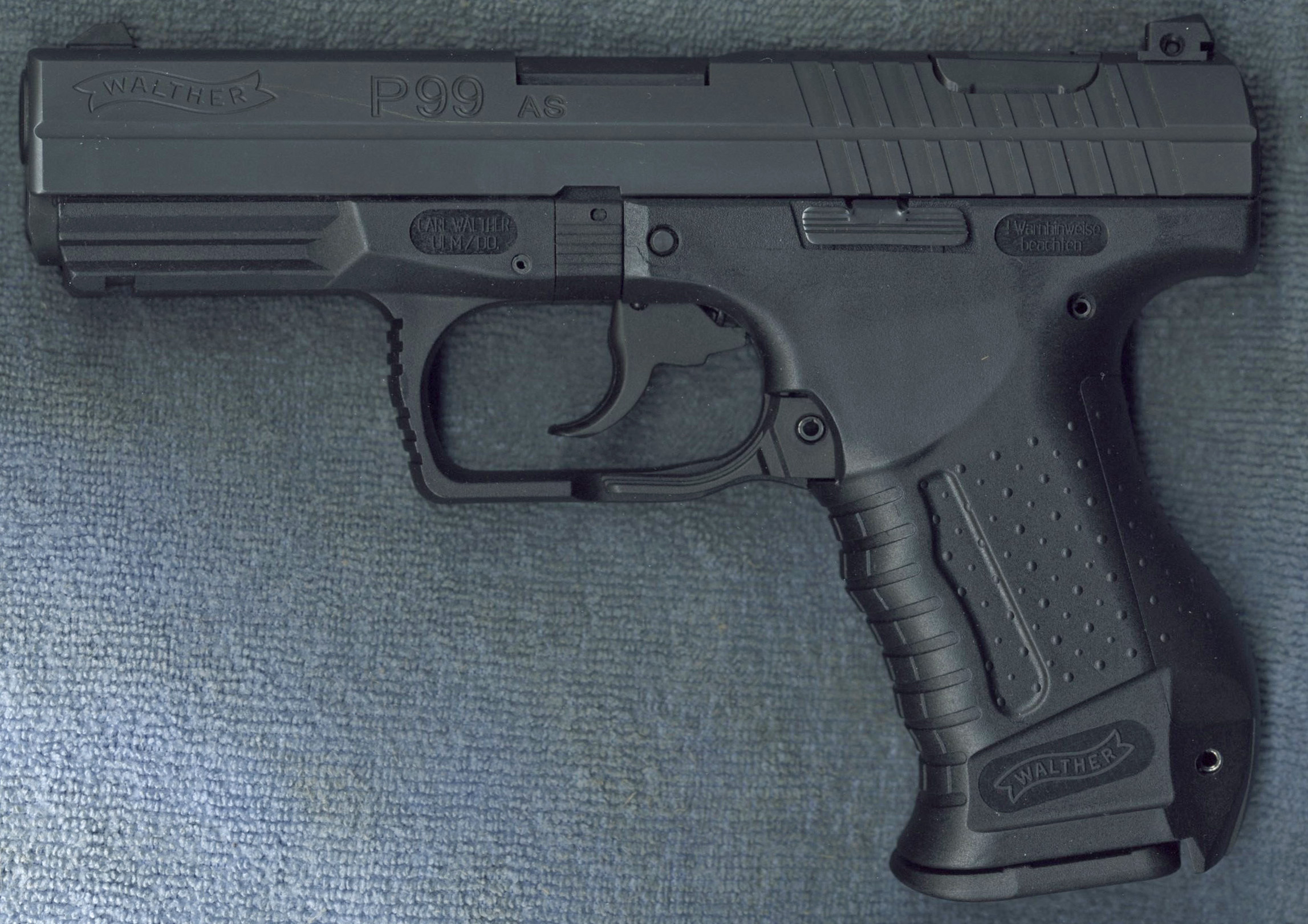 The left side of a Walther P99AS third generation pistol chambered in .40 S&W. Note decocking lever on top of slide.